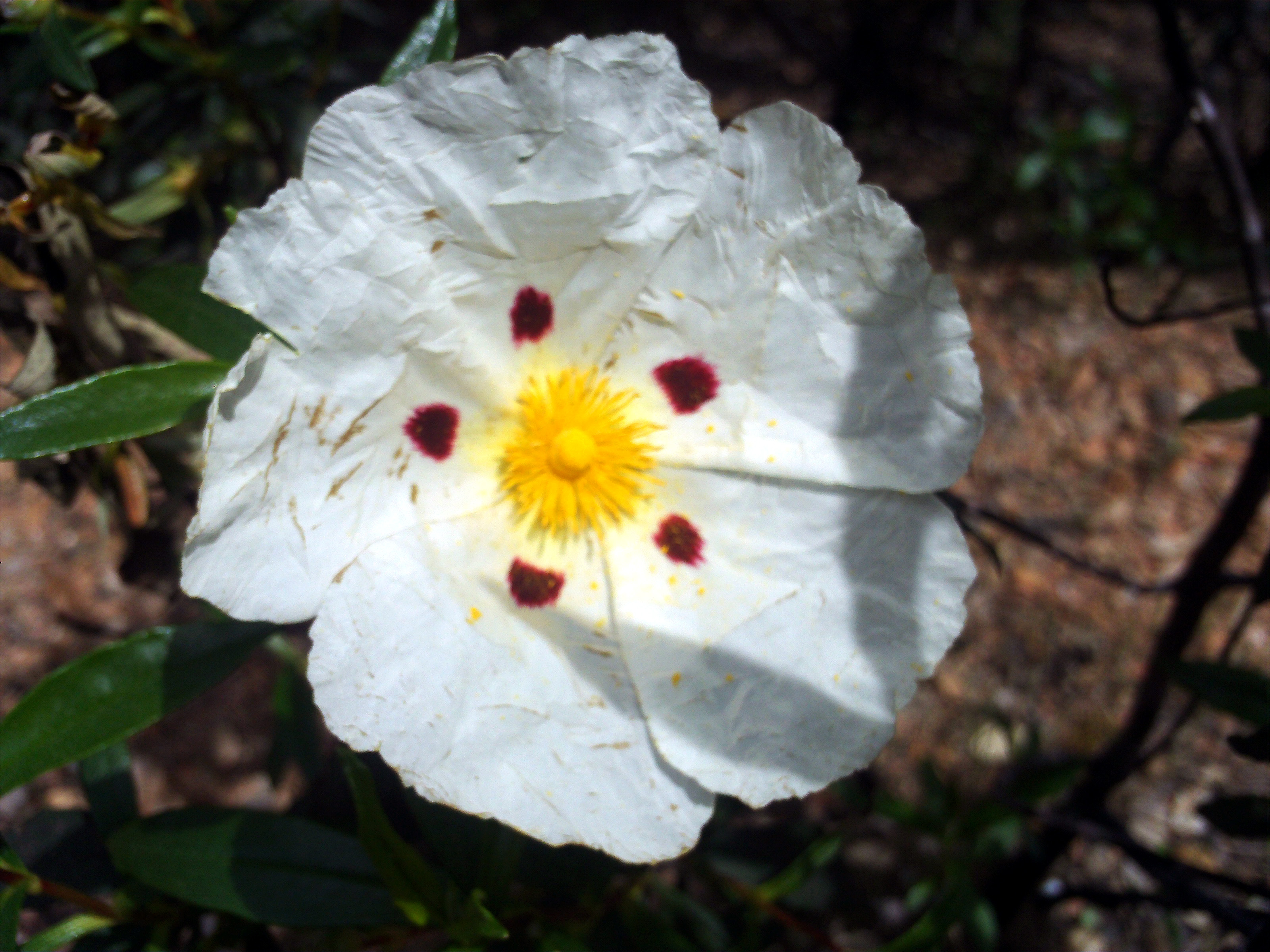 Cistus ladanifer flower close up, Dehesa Boyal de Puertollano, Spain